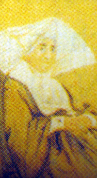 Franziska Batthyàny